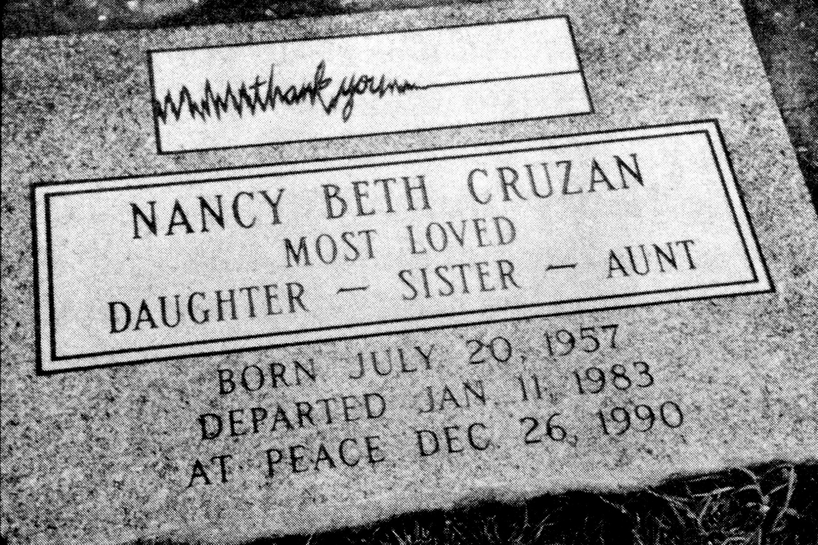 Gravestone of Nancy Beth Cruzan. Iconographic Collections Keywords: Nancy Beth Cruzan